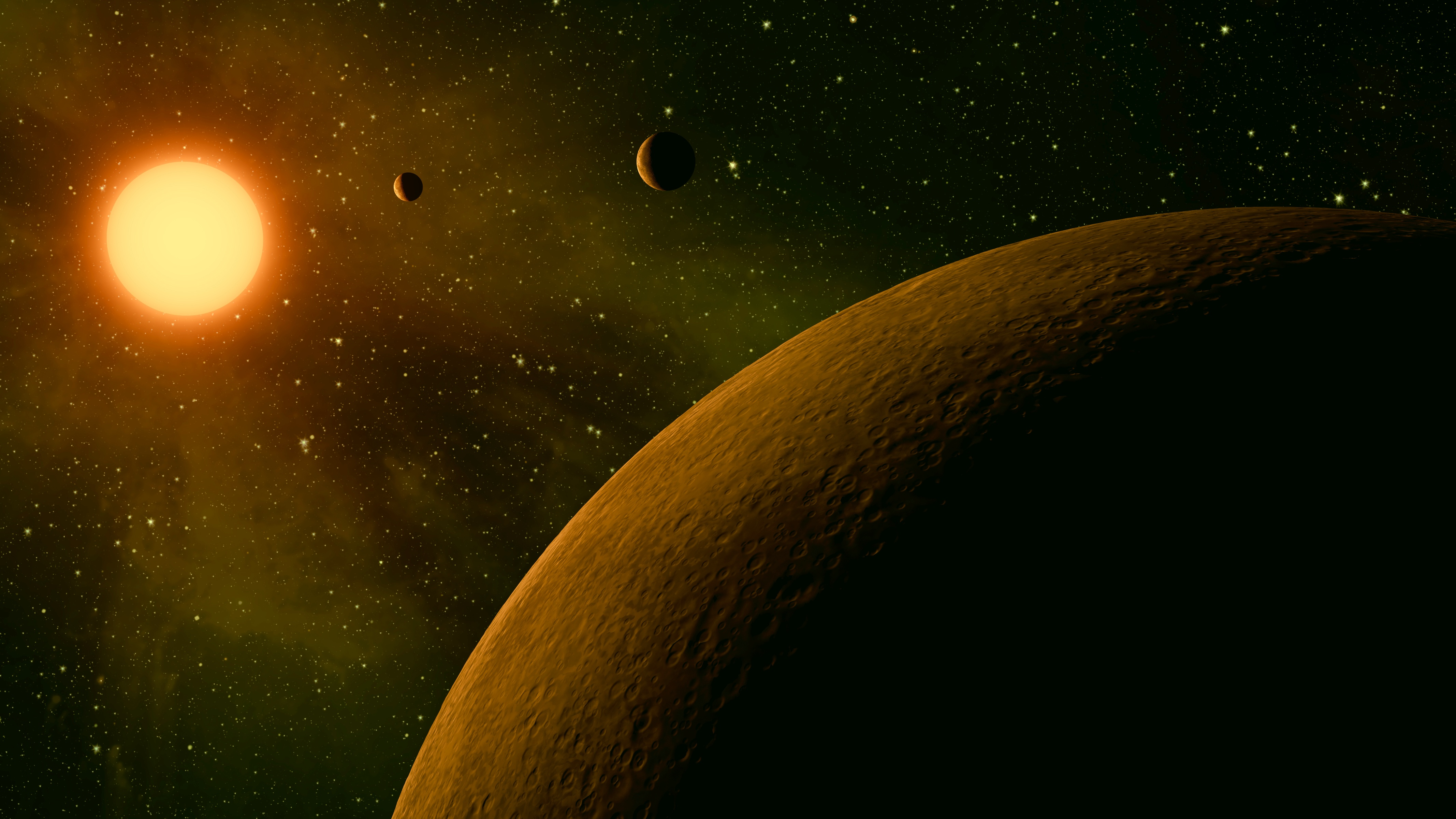 Mini Planetary System This artist's concept depicts an itsy bitsy planetary system -- so compact, in fact, that it's more like Jupiter and its moons than a star and its planets. Astronomers using data from NASA's Kepler mission and ground-based telescopes recently confirmed that the system, called Kepler-42 (formerly KOI-961), hosts the three smallest exoplanets known so far to orbit a star other than our sun. An exoplanet is a planet that resides outside of our solar system. The star, which is located about 130 light-years away in the Cygnus constellation, is what's called a red dwarf. It's one-sixth the size of the sun, or just 70 percent bigger than Jupiter. The star is also cooler than our sun, and gives off more red light than yellow. The smallest of the three planets, called Kepler-42d (Formerly KOI-961.03), is actually located the farthest from the star, and is pictured in the foreground. This planet is about the same size as Mars, with a radius only 0.57 times that of Earth. The next planet to the upper right is Kepler-42b (formerly KOI-961.01), which is 0.78 times the radius of Earth. The planet closest to the star is Kepler-42c (formerly KOI-961.02), with a radius 0.73 times the Earth's. All three planets whip around the star in less than two days, with the closest planet taking less than half a day. Their close proximity to the star also means they are scorching hot, with temperatures ranging from 350 to 836 degrees Fahrenheit (176 to 447 degrees Celsius). The star's habitable zone, or the region where liquid water could exist, is located far beyond the planets. The ground-based observations contributing to these discoveries were made with the Palomar Observatory, near San Diego, Calif., and the W.M. Keck Observatory atop Mauna Kea in Hawaii.